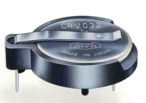 Union carbide CR2032 lithium battery in a battery holder made by M.P.D.